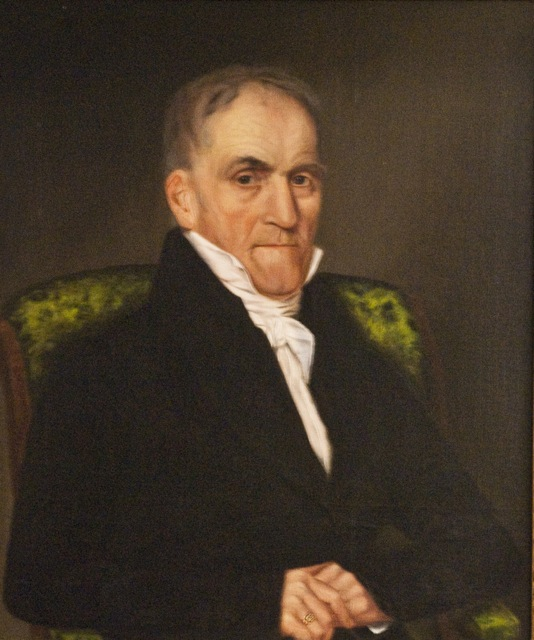 Congressman and judge Laban Wheaton; founder of Wheaton College (Norton, Massachusetts)